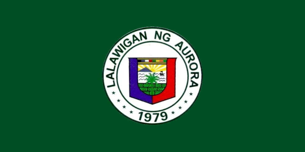 Provincial Flag of Aurora